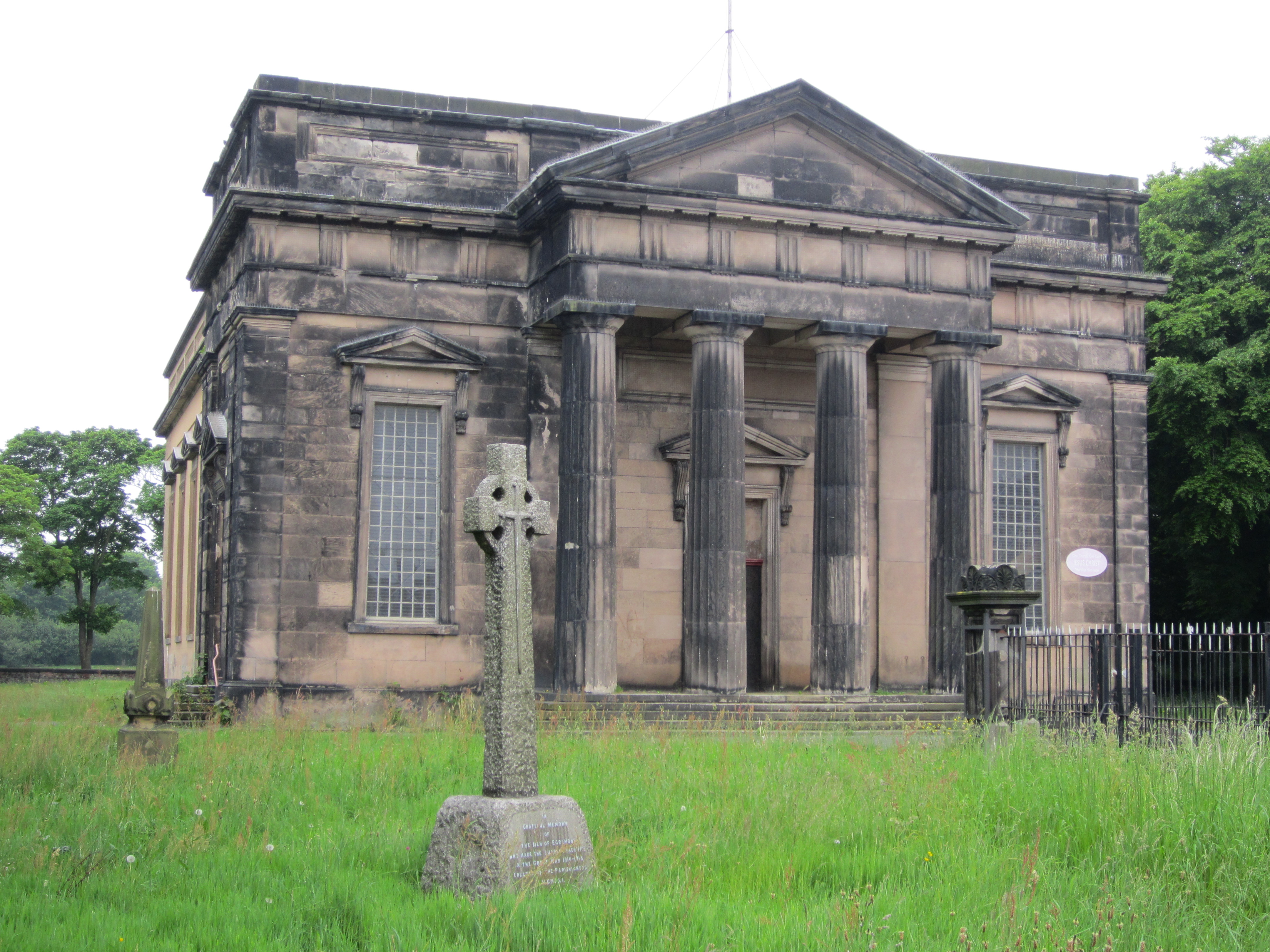 St John's Church, Liscard Road, Wallasey, Wirral, England.